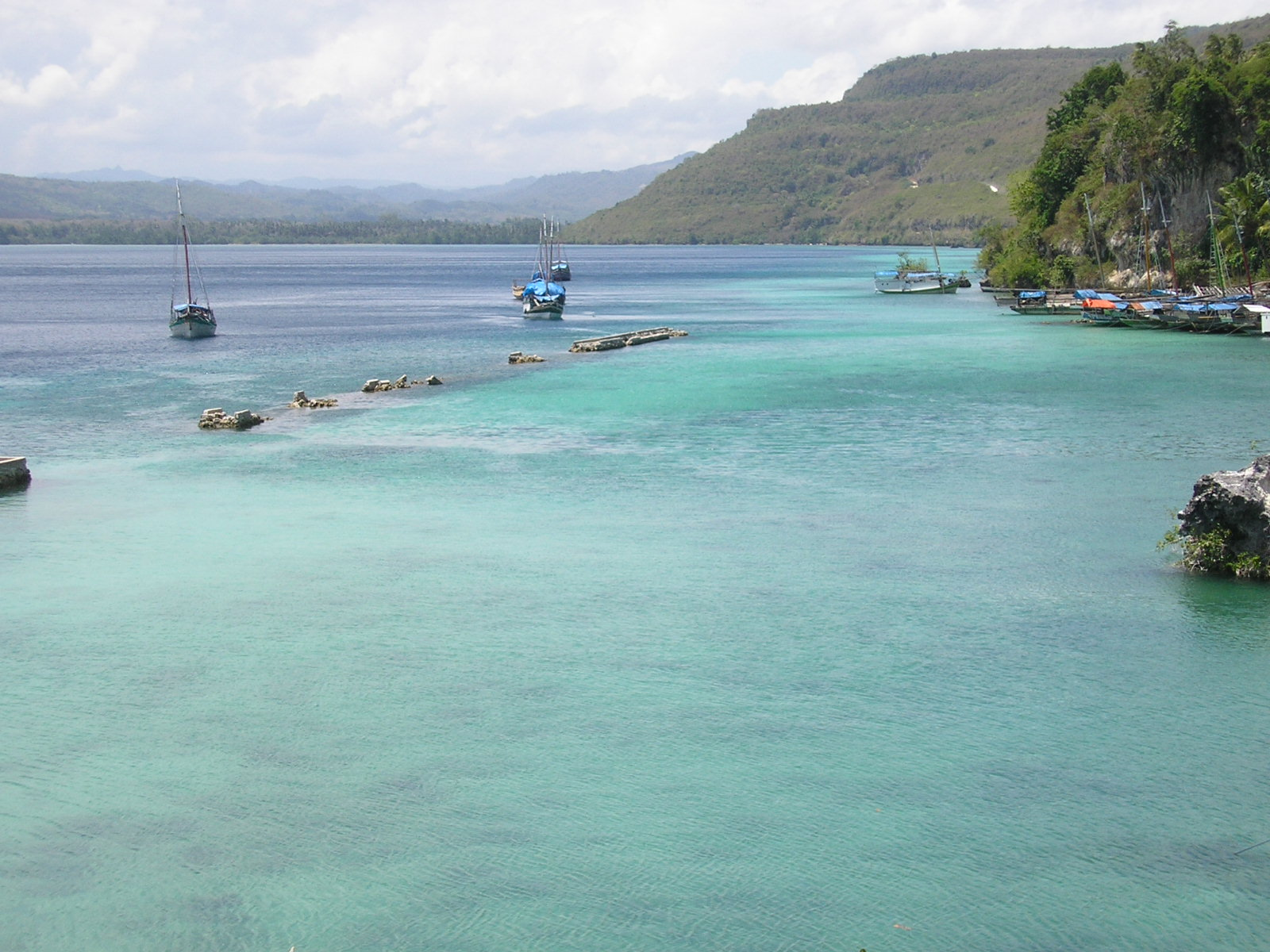 Sampolawa Bay, Buton Island - South East Sulawesi